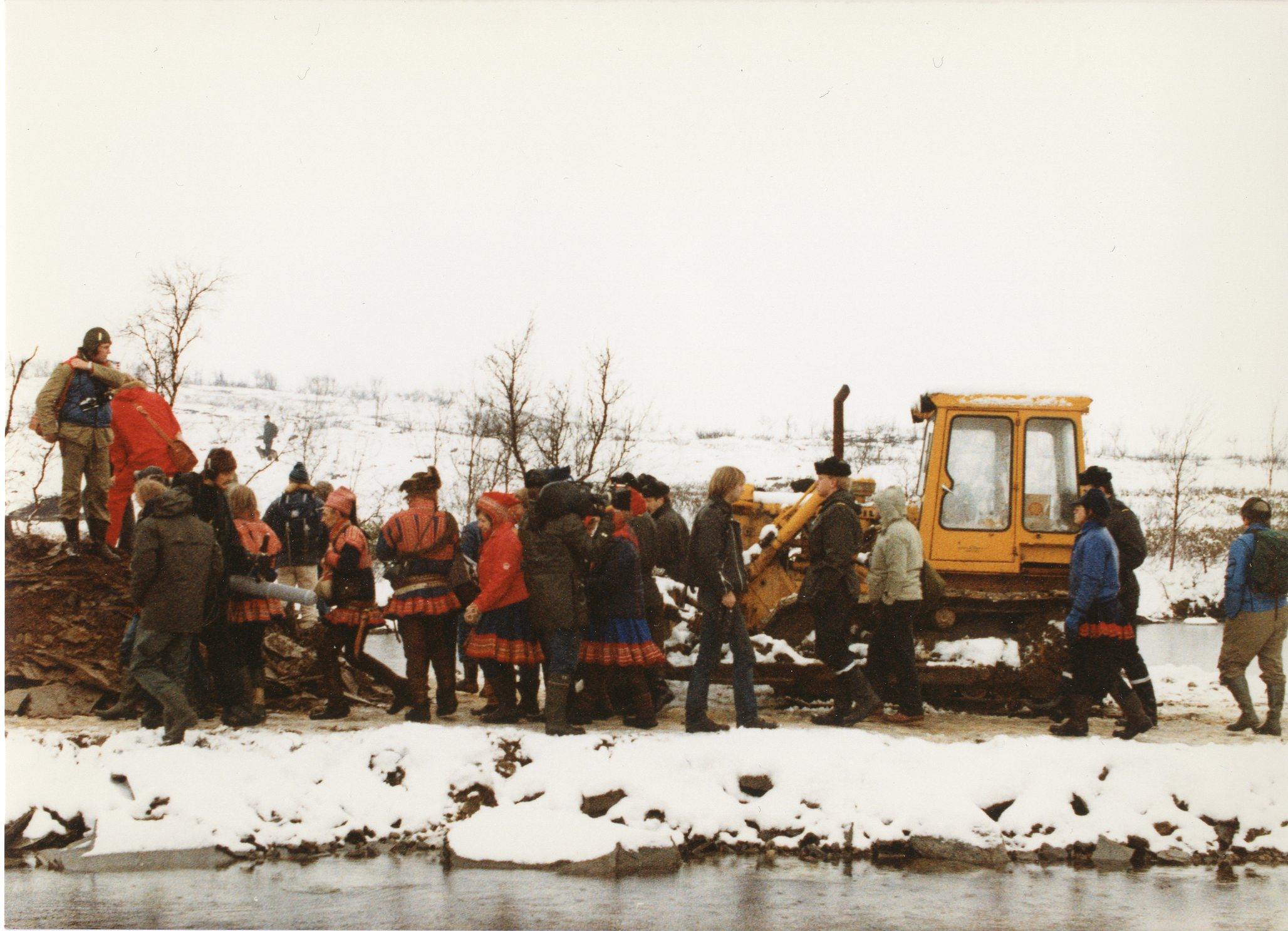 Image from National Archives of Norway's Flickr-Album "Protest" (all images marked with "No known copyright restrictions")